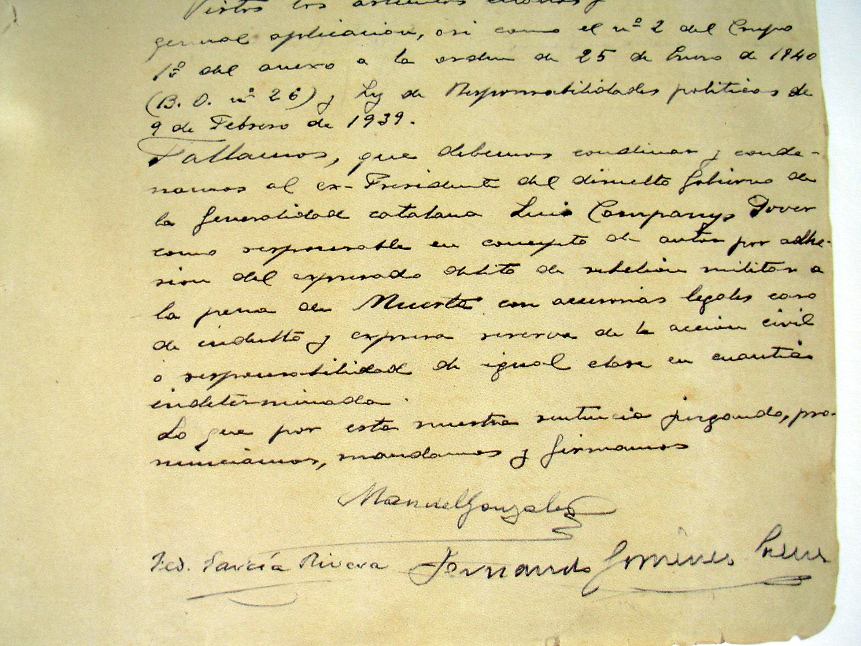 Summary of the death penalty of Lluís Companys i Jover, President of the Generalitat de Catalunya (1933-1940). who had led a Catalan Nationalist uprising against the center and right/wing republican government, and had proclaimed the Catalan State on October 6, 1934. He was executed, one year after the end of the war, under the fascist rule of Francisco Franco, due to the only reason to be the President of Catalonia, as it can be read on line 7 of this image of the death penalty.